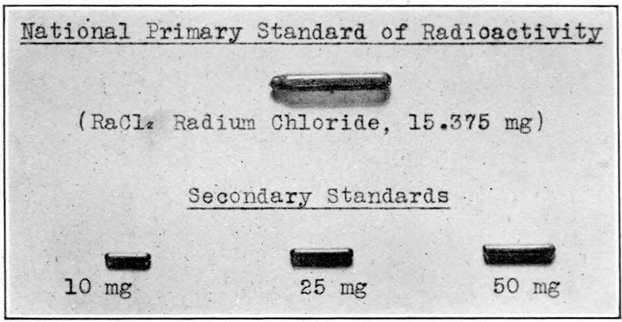 Sealed glass tube of radium chloride kept by the US Bureau of Standards that served as the primary standard of radioactivity for the United States in 1927, and several subsidiary working standards. . This was officially known as the "Secondary radium standard no. 6" which had in 1913 been calibrated against the International Radium Standard, a similar tube of radium chloride prepared by Marie Curie, kept by the Bureau Internationale des Poids et Measures (International Bureau of Weights and Measures) at Sevres, France. This was determined to contain 20.68 mg of radium chloride, corresponding to 15.44 mg of radium in 1913. Since radium decays at a rate of about 1% in 25 years, at the time of this picture it was estimated to contain 15.360 mg of radium